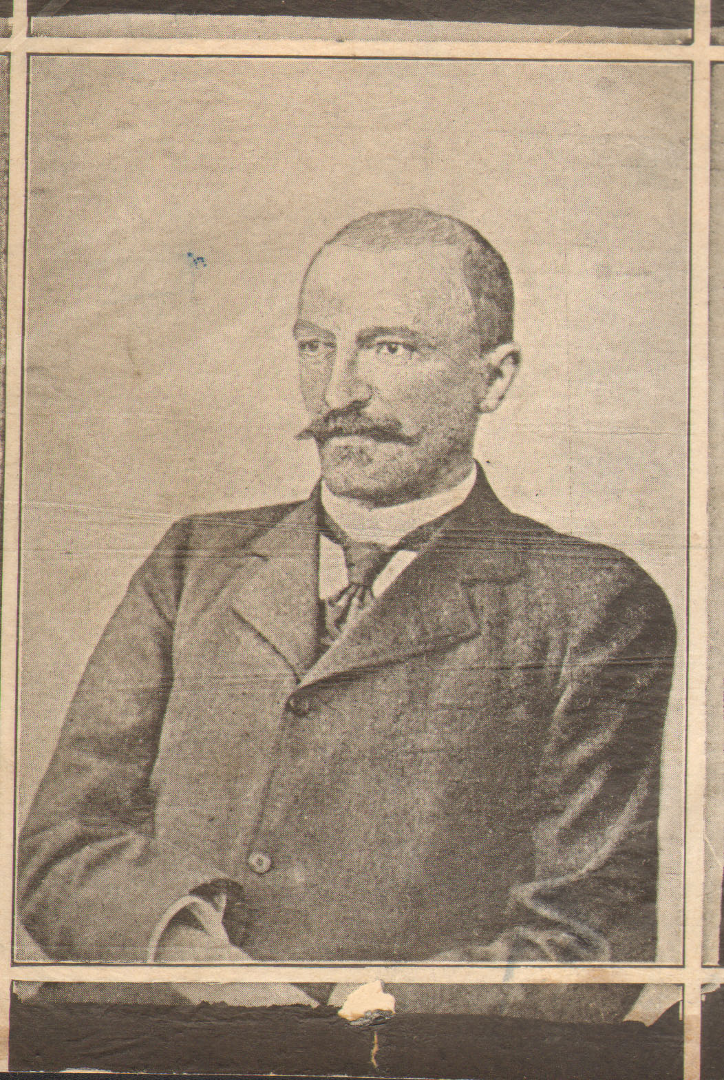 Nikola Joksimovic, Serbian journalist